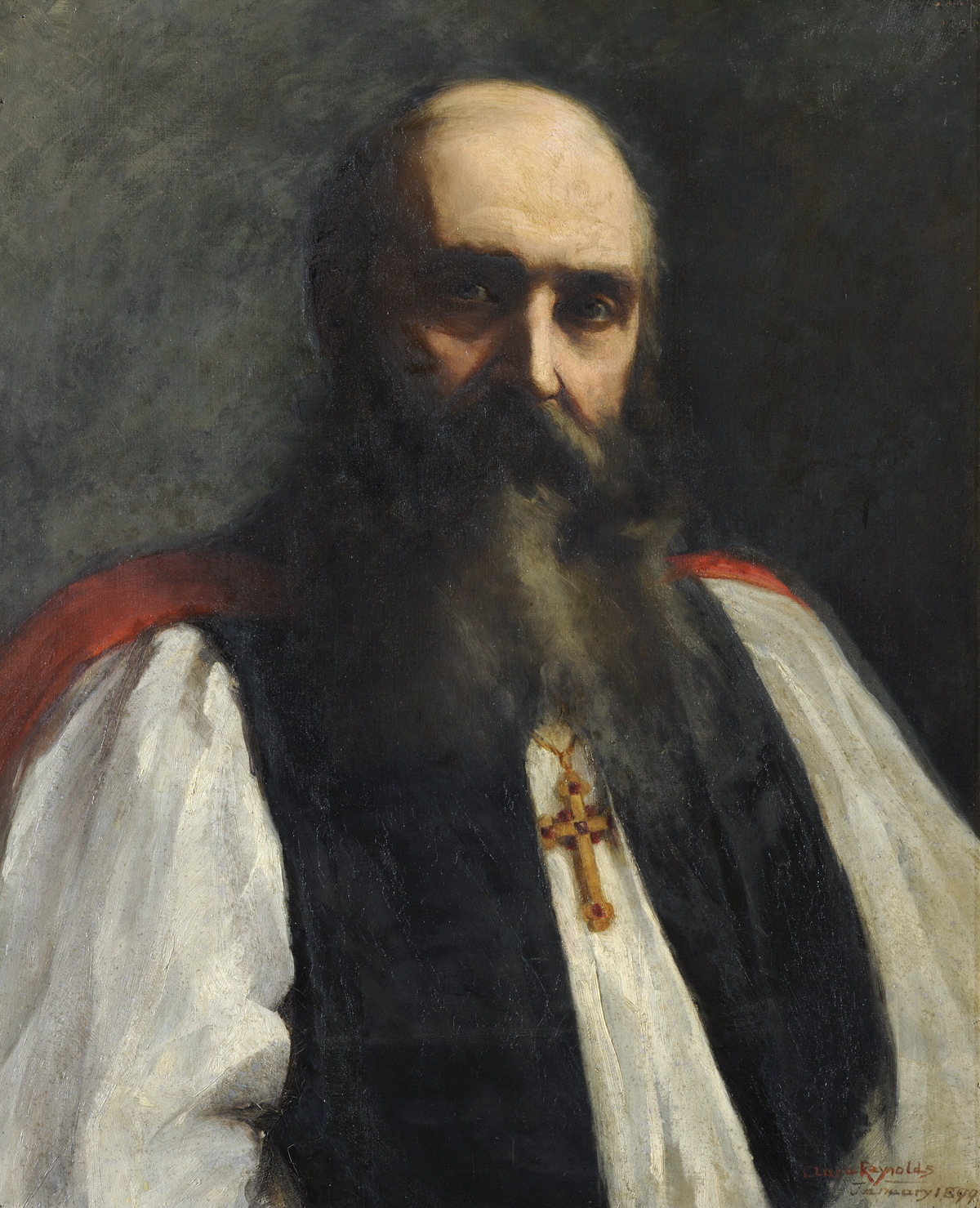 Portrait of Charles Alan Smythies (1844–1894), English colonial bishop.